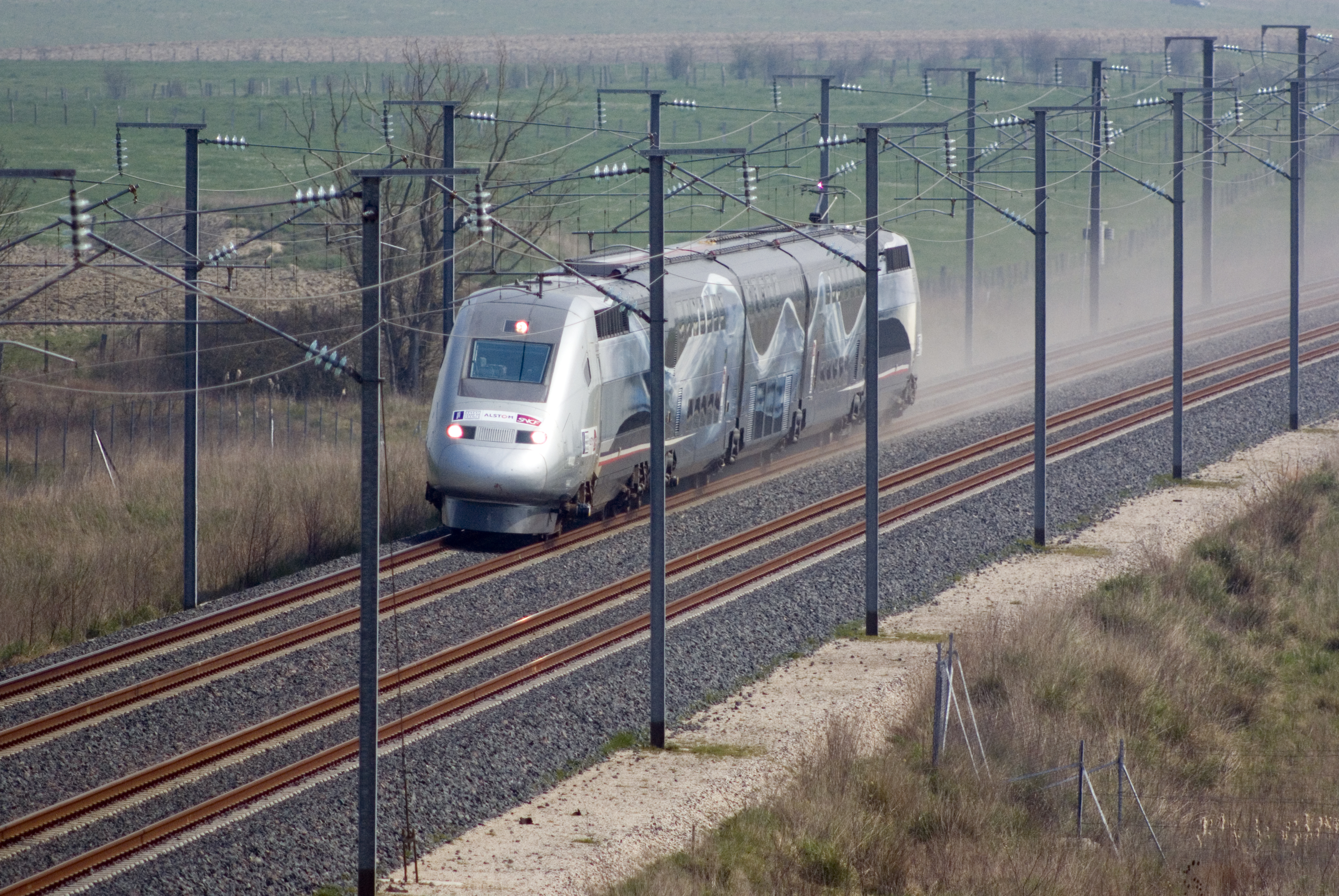 Special TGV 4402 "V150" running at 574 kilometers per hour at kilometer 192 of high-speed line "Est européenne" as it establishes a new world speed record on April 3, 2007 near Le Chemin, Meuse, France.